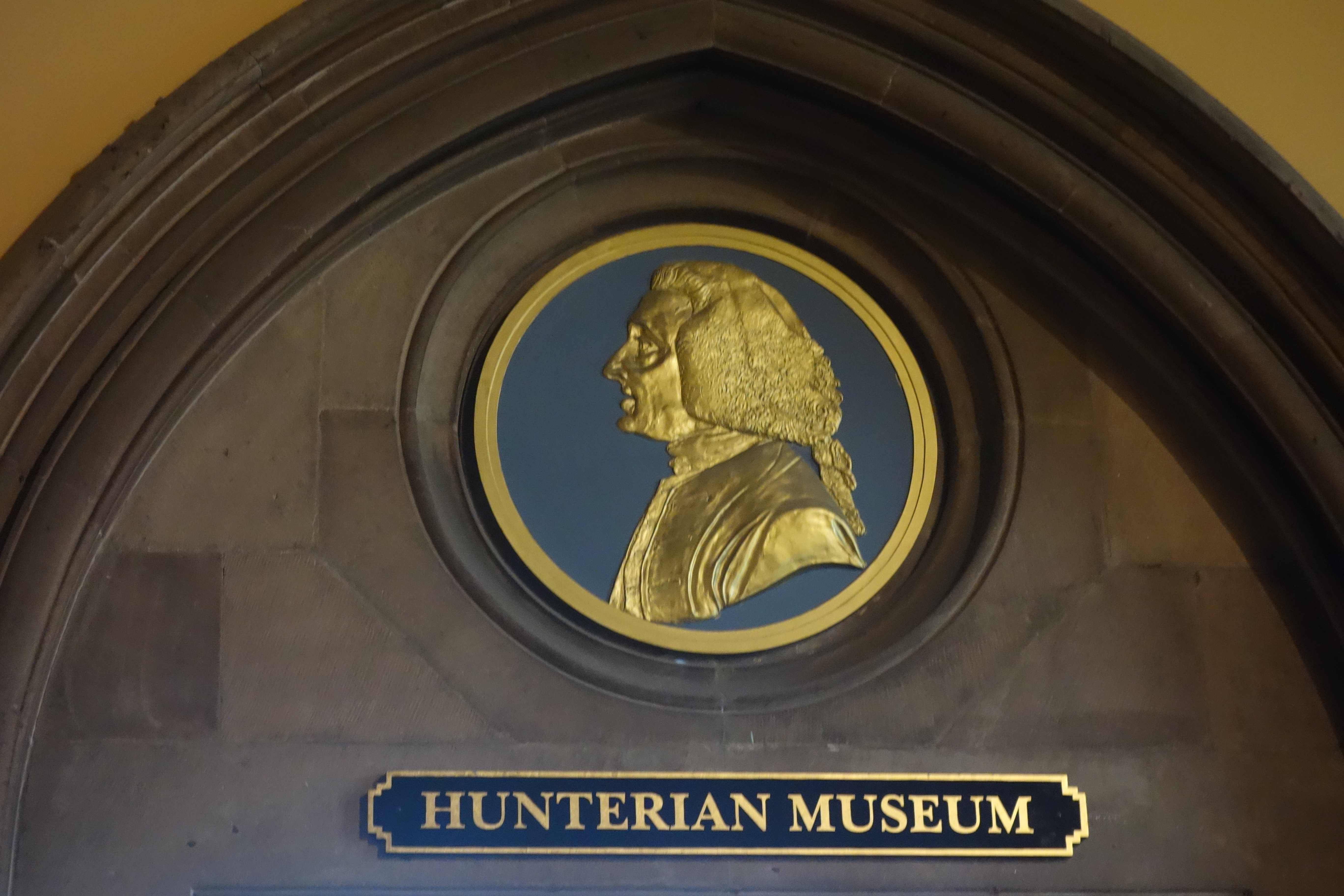 Entrance of Hunterian Museum, University of Glasgow Main Building (2017)